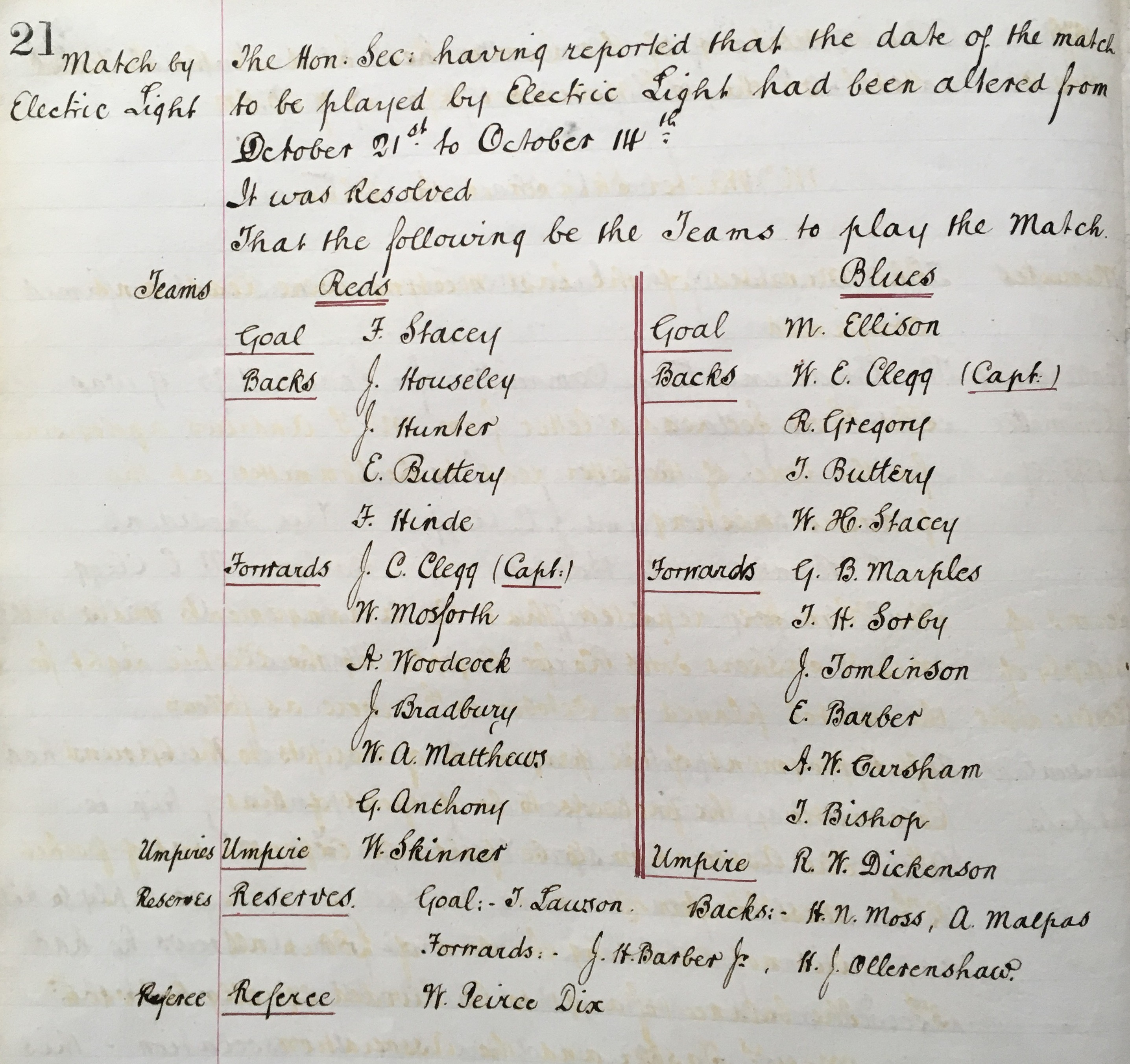 Picture of a page from the minute book of the Sheffield & Hallamshire FA.